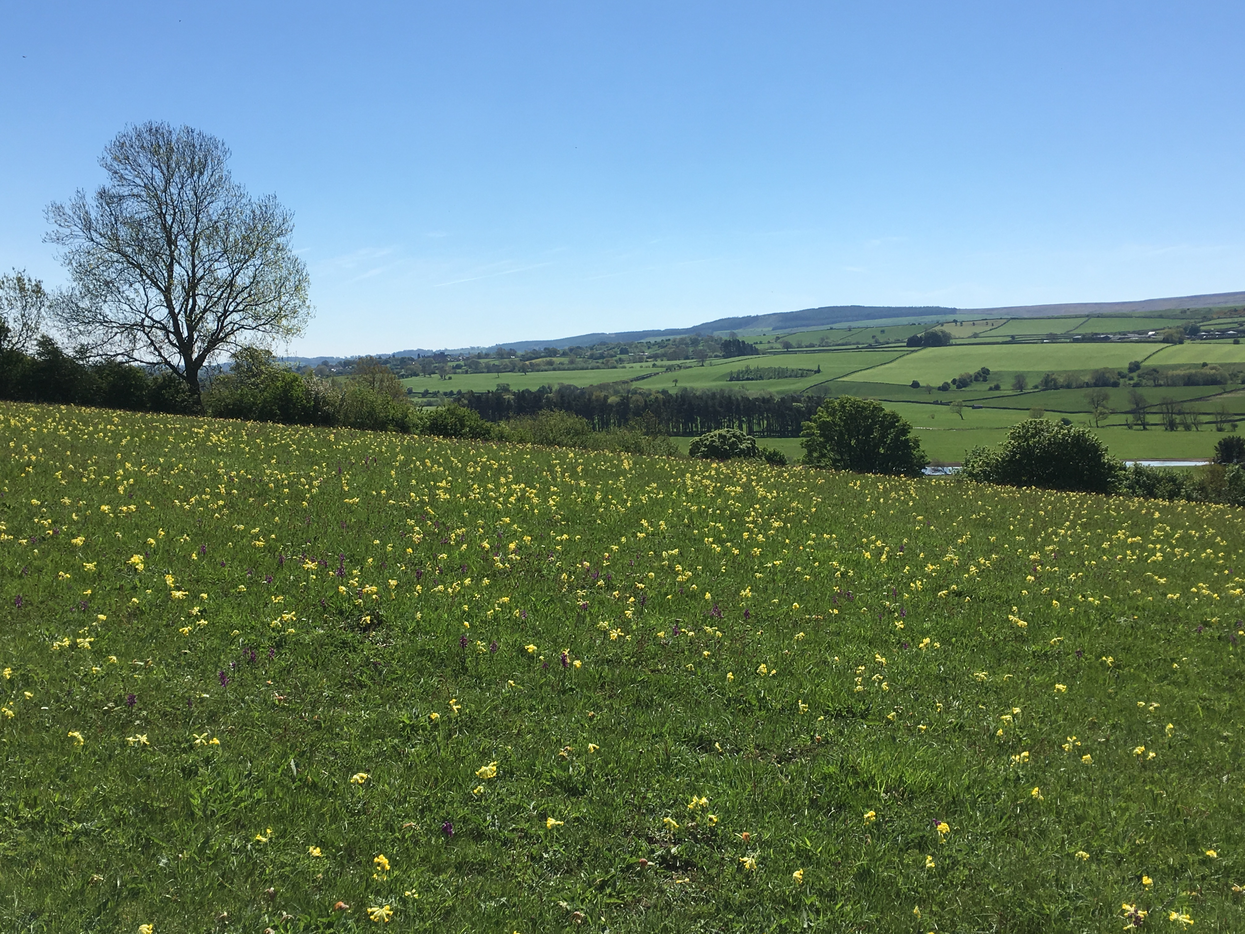 The view from Leyburn Old Glebe SSSI, across the valley of the River Ure, Yorkshire, United Kingdom, photographed in Spring 2018